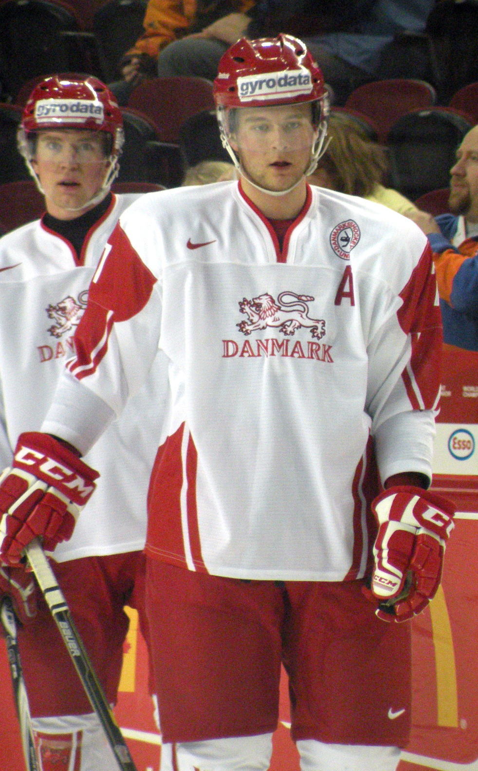 Danish forward Nicklas Jensen prior to a game against Team Switzerland at the 2012 World Junior Hockey Championships at Calgary, Alberta, Canada.